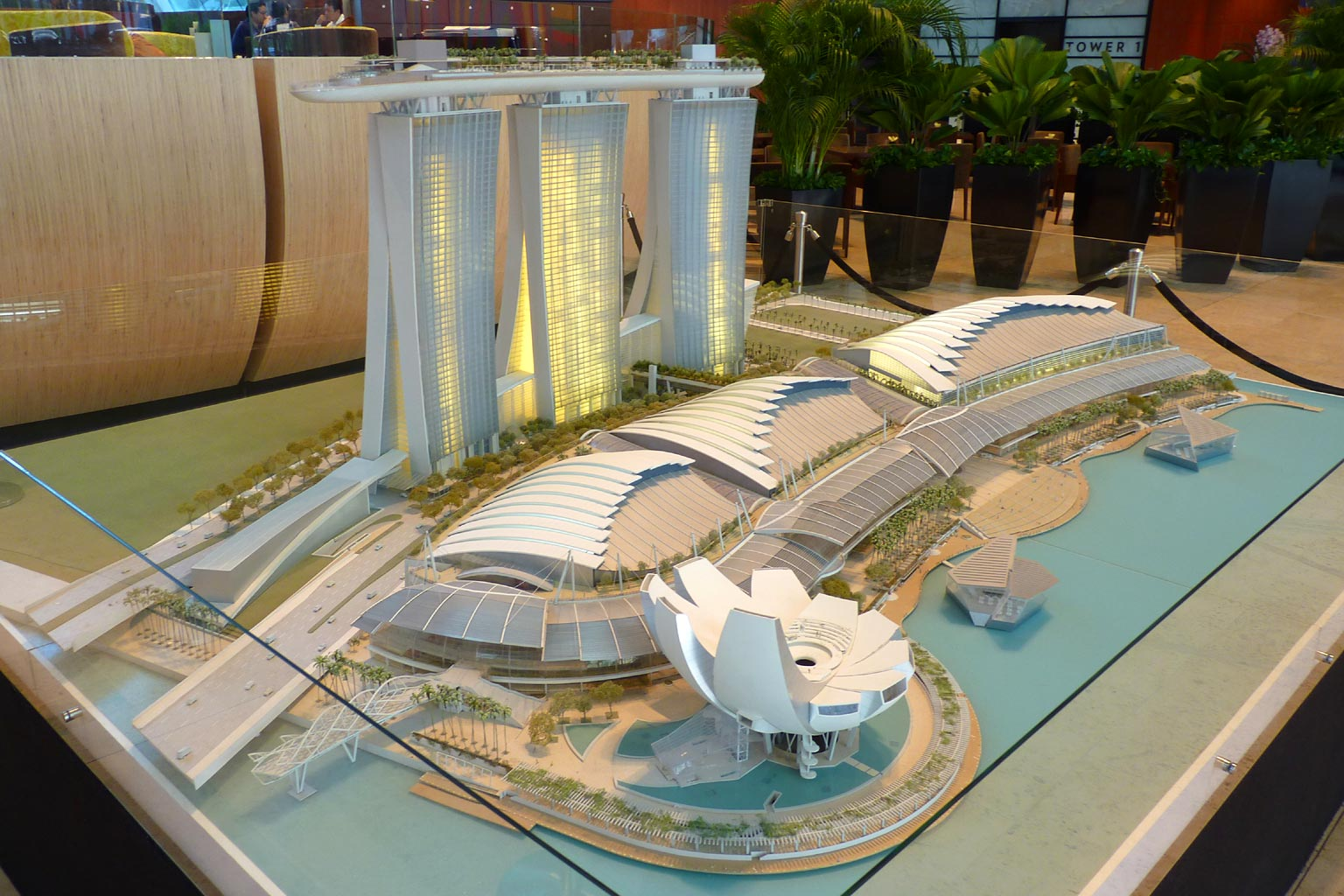 Architectural model showing layout of the Marina Bay Sands Integrated Resort: The hotel and SkyPark are in and on the towers in the background; the shopping mall, theatre and casino are in the long lower building; and the ArtScience Museum is in flower-shaped building in the foreground.